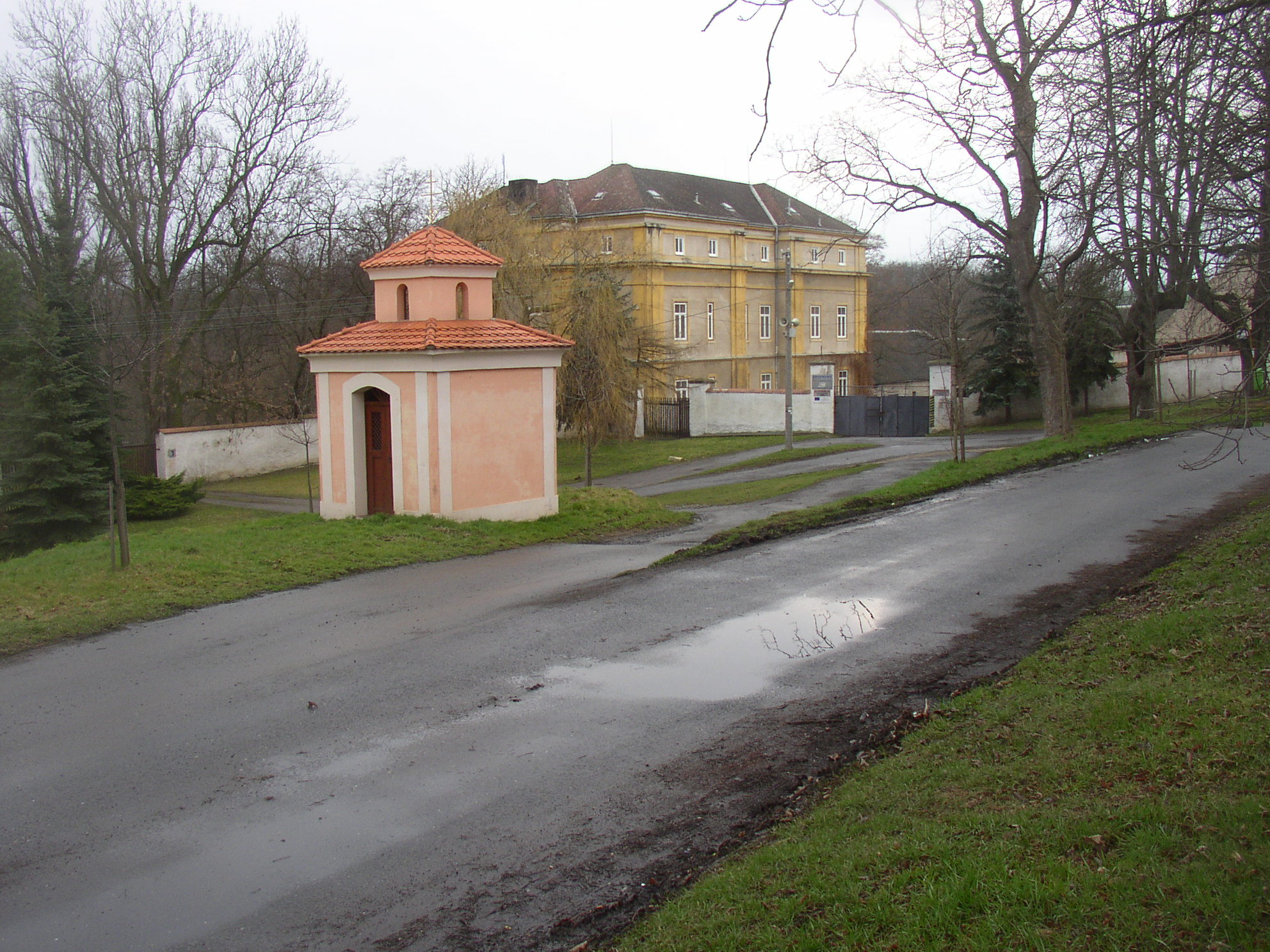 Village green with Our Lady and St Christopher chapel and manor house in Blahotice (part of Slaný town, Kladno District, Czech Republic).